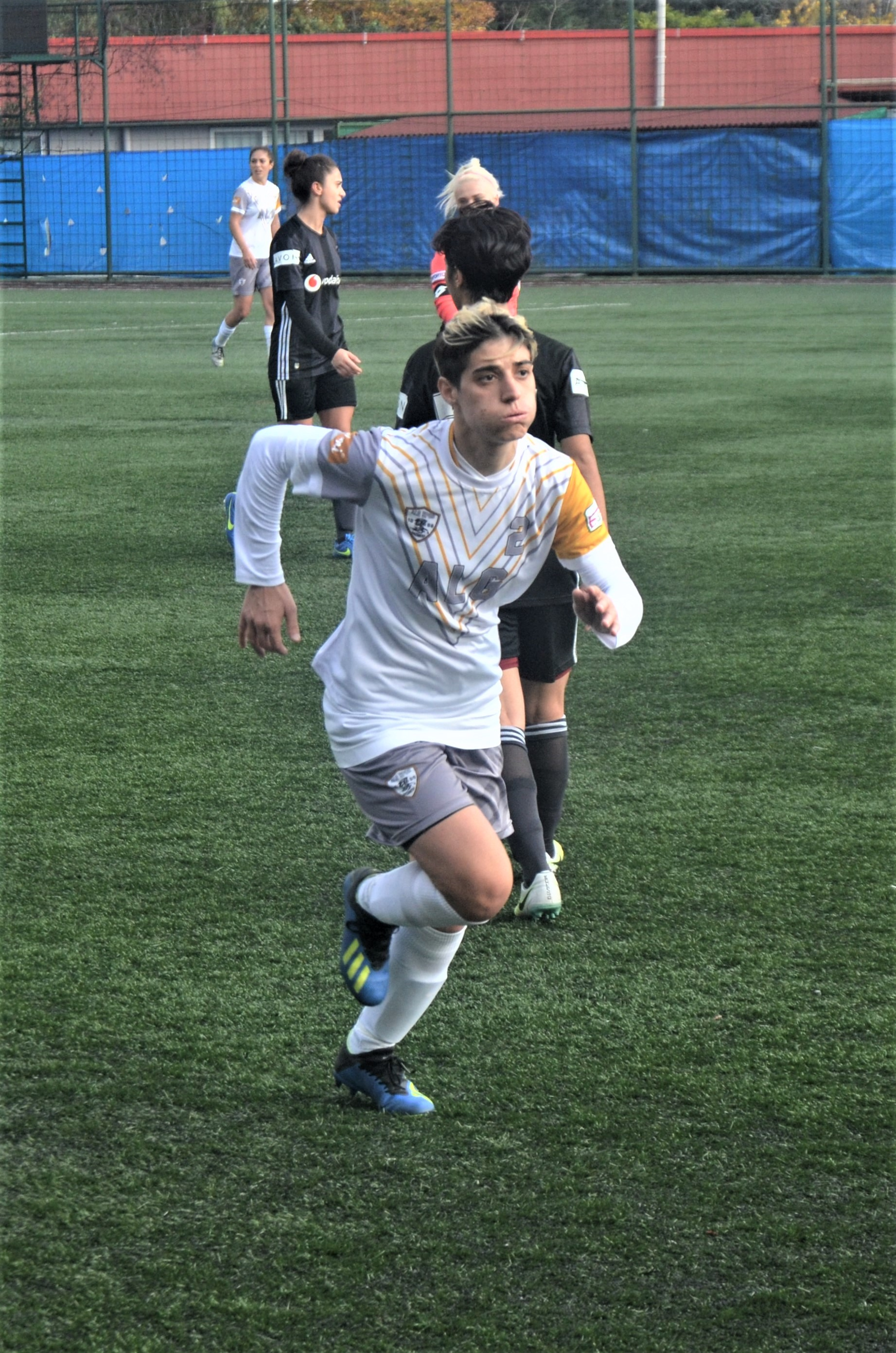 Zehra Borazancı of ALG Spor in the 2018-19 Turkish Women's First League.